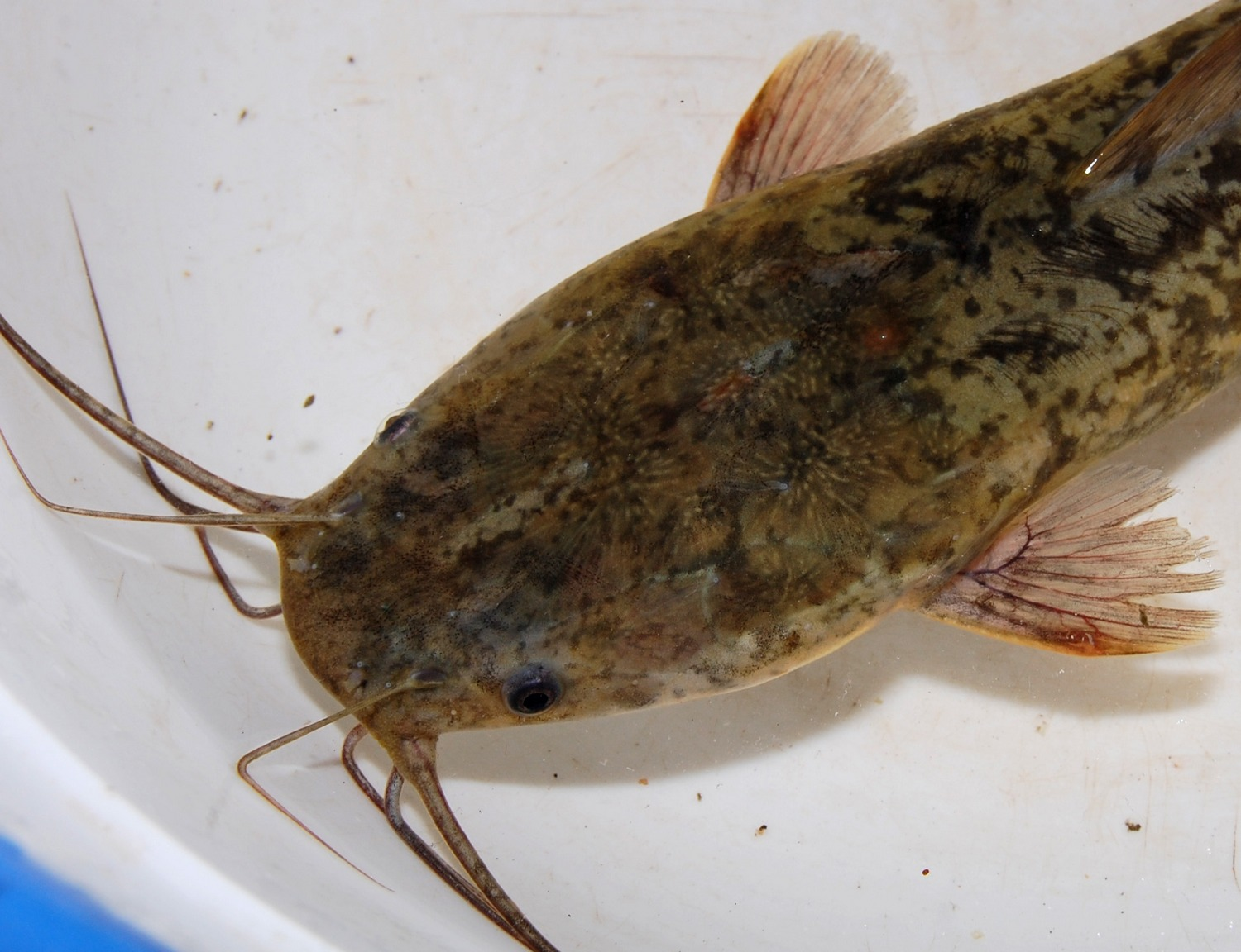 Clarias gariepinus. Bogor, West Java, Indonesia.